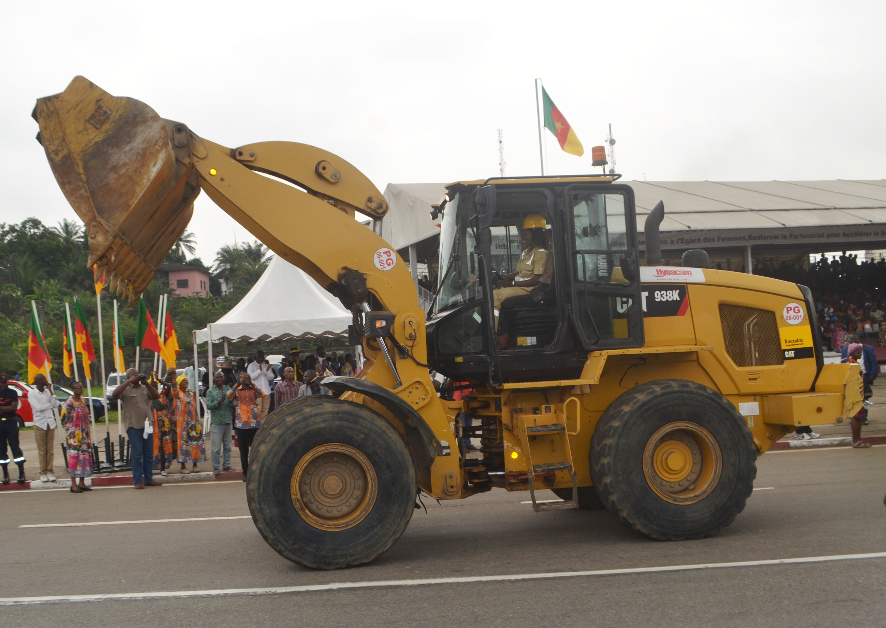 This is an image with the theme "Africa on the Move or Transport" from: Cameroon